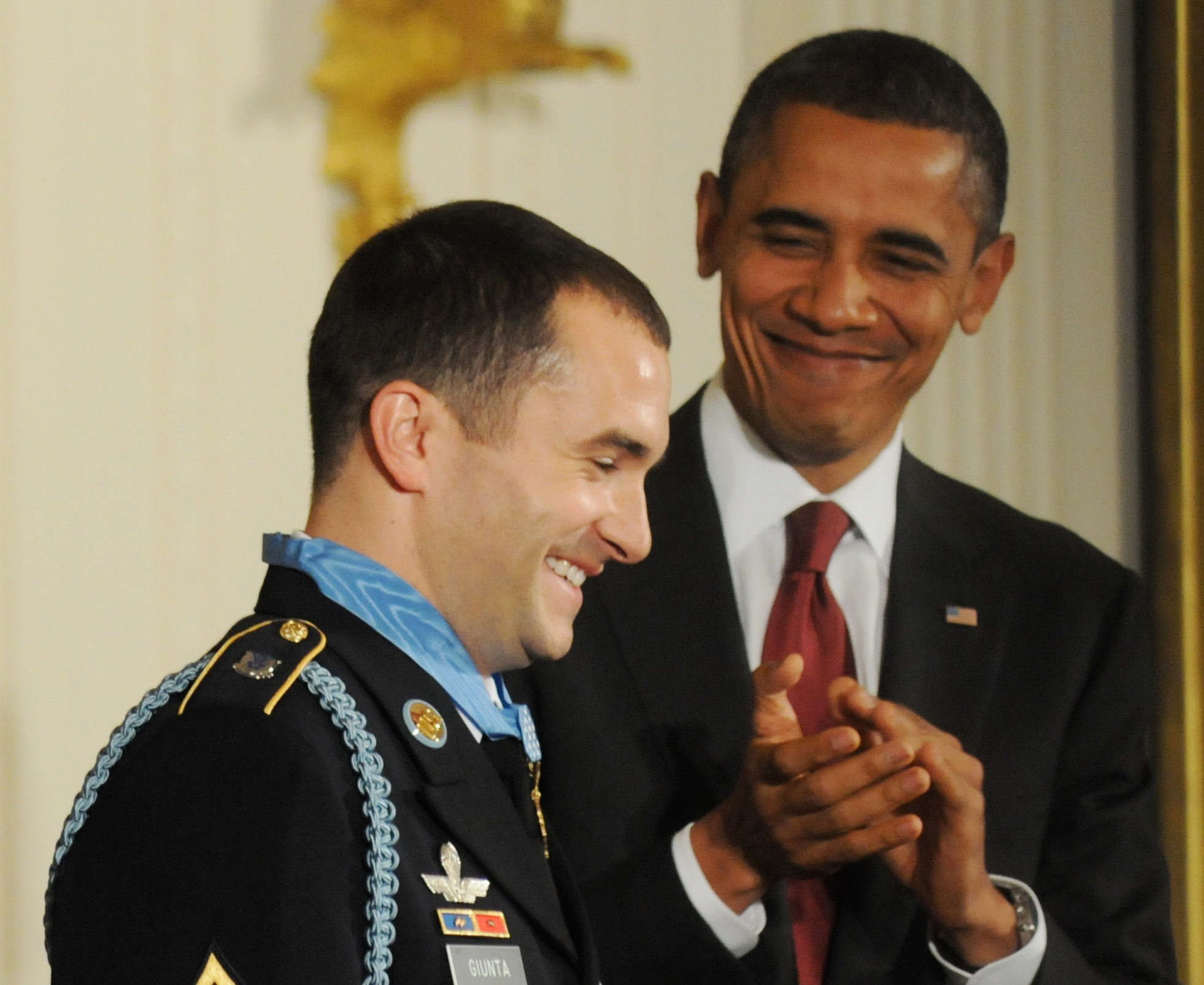 President Barack Obama applauds after presenting the Medal of Honor to Staff Sgt. Salvatore Giunta during a ceremony at the White House.